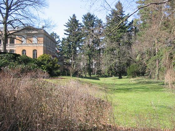 Park with Villa Harteneck in Berlin-Grunewald, built in 1912 by Adolf Wollenberg